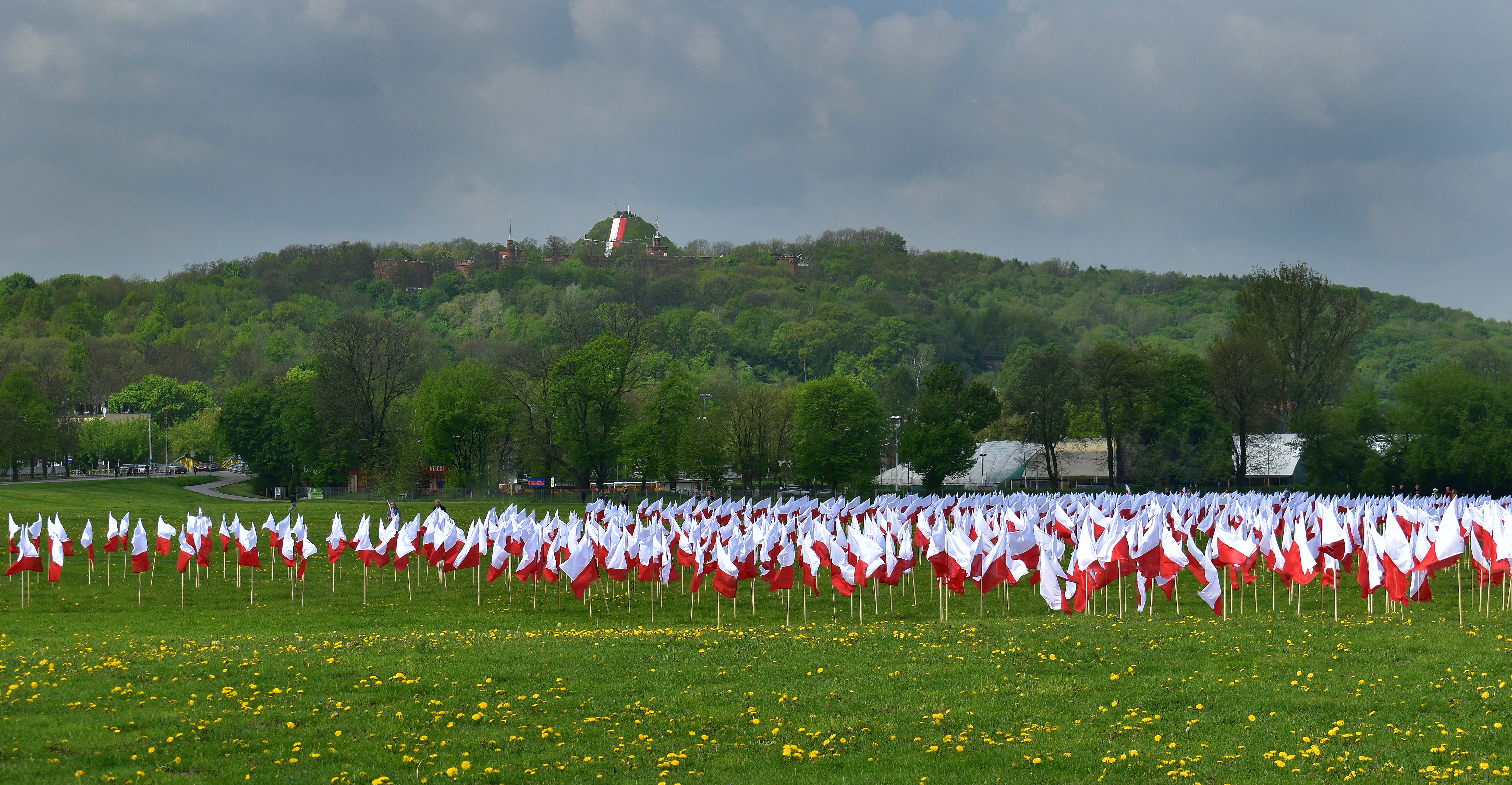 Polish National Flag Day (May 2, 2019), Błonia Park, Foch Av, Krakow, Poland